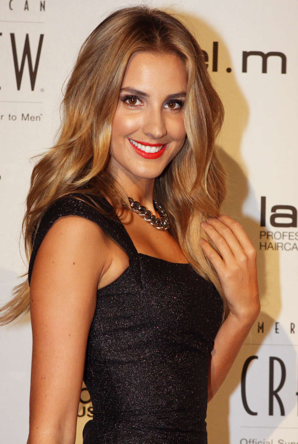 Laura Dundovic at the Natasha Bedingfield Attends the 2013 Australian Hair Fashion Awards.